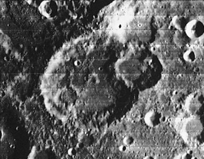 Image LOIV-095-H2